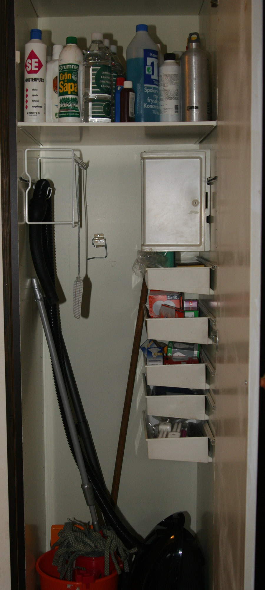 Broom cupboard